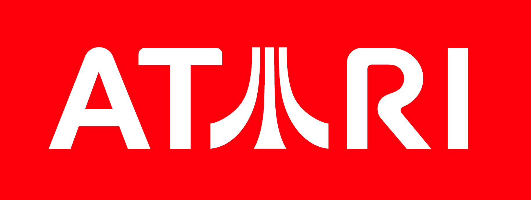 Atari's logo